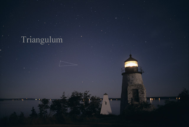 Photography of the constellation Triangulum, the triangle